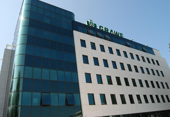 Grawe Croatia Architect Marijan Turkulin